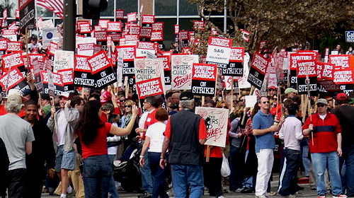 The 2007–2008 Writers Guild of America strike in Los Angeles, California